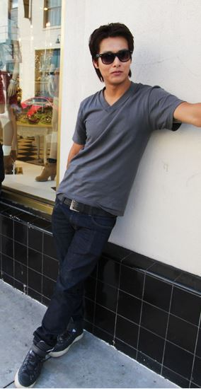 Danny Im, aka Taebin